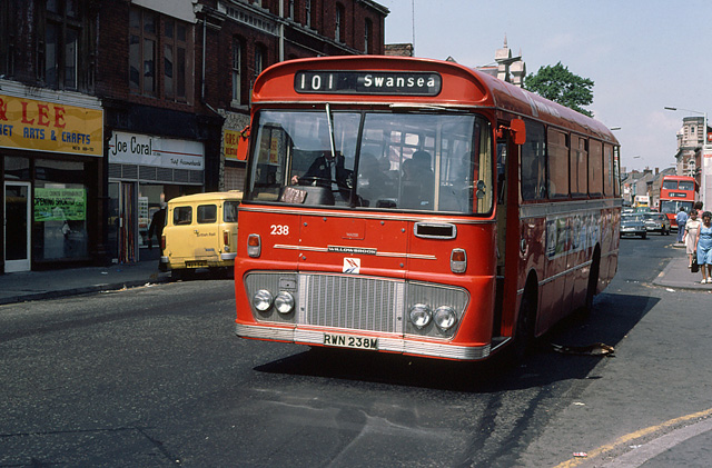 Buses Along The High Street A South Wales Transport Ford with Willowbrook body pulls away from the stops outside Swansea Station. The road on the right provides a drop off point and a rank for taxis. In the distance, on the right, the octagonal turret marks the junction with Prince of Wales Road. On the left, a British Railways Commer minibus stands outside Joe Coral's Bookmakers. The bookies is flanked by an arts and crafts shop and a Chinese restaurant.